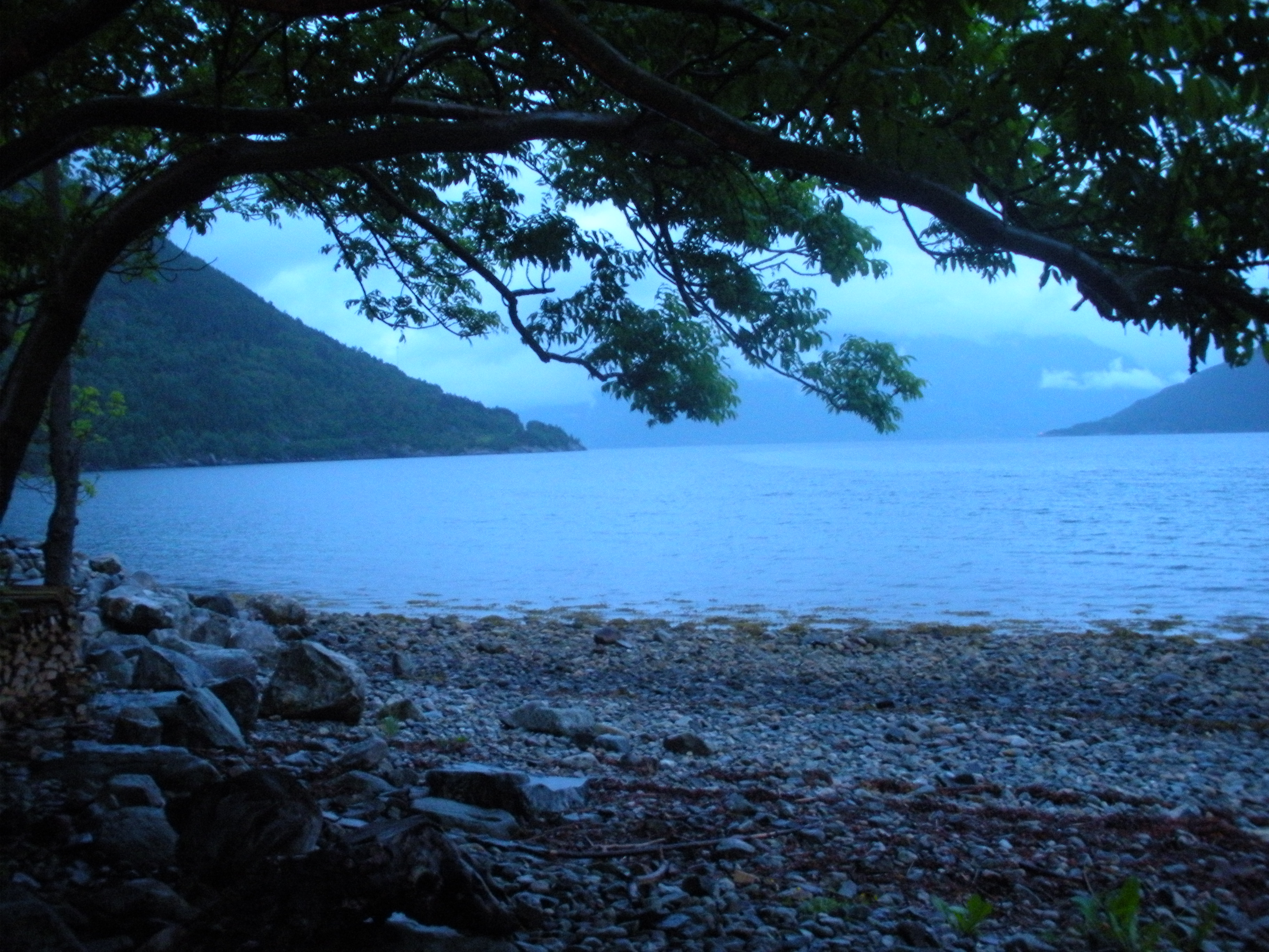 Campsite at Ringoy